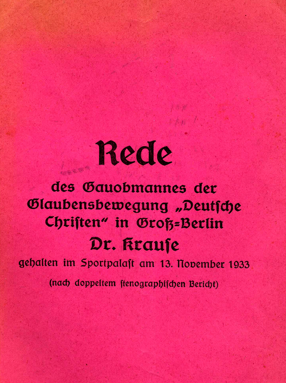 Title page of the private print of the 1933 antisemitic speech by Reinhold Krause